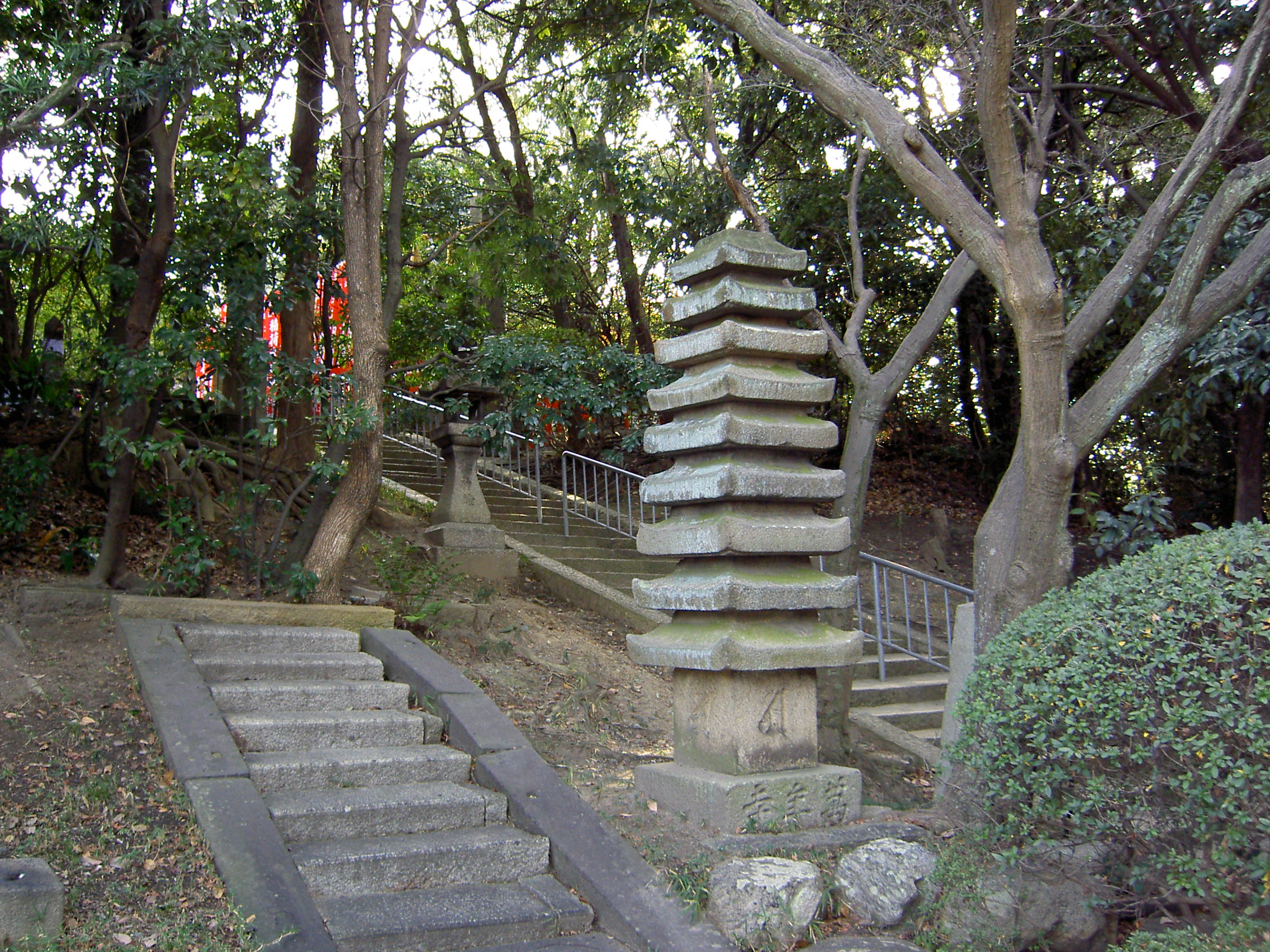 Eight Scenic Spots in Hirakata "Mannenjiyama shaded by Trees". Hirakata-shi, Osaka Japan.